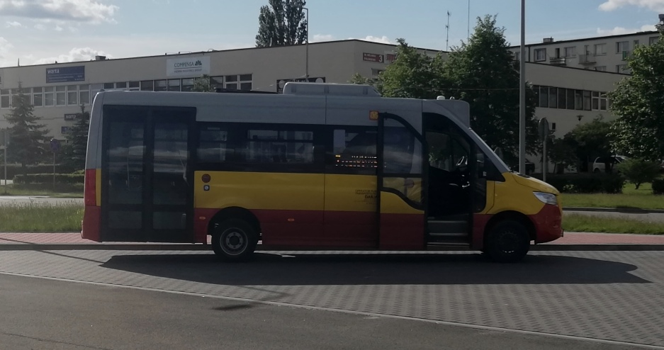 City bus in Końskie Poland (2020)